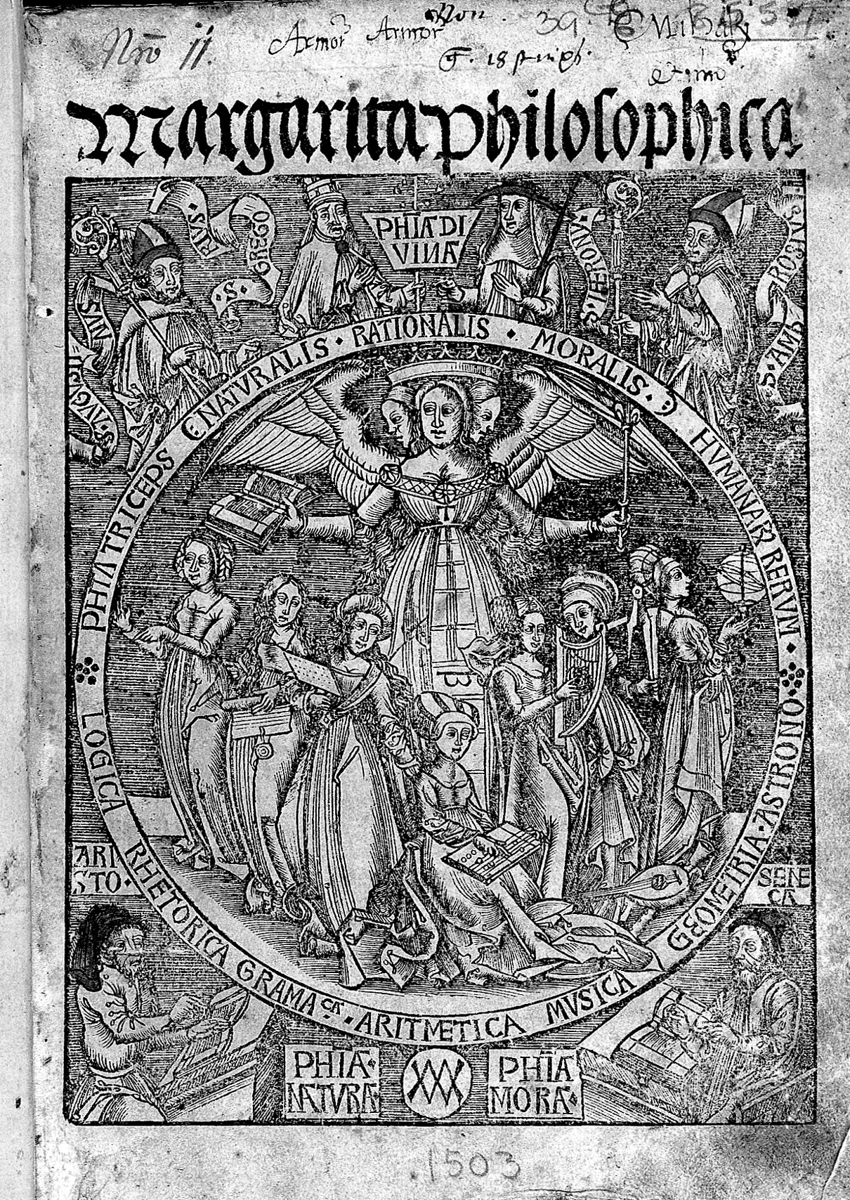 Illustrated title page (1503 edition) Rare Books Keywords: diagram, optics; OPTICS